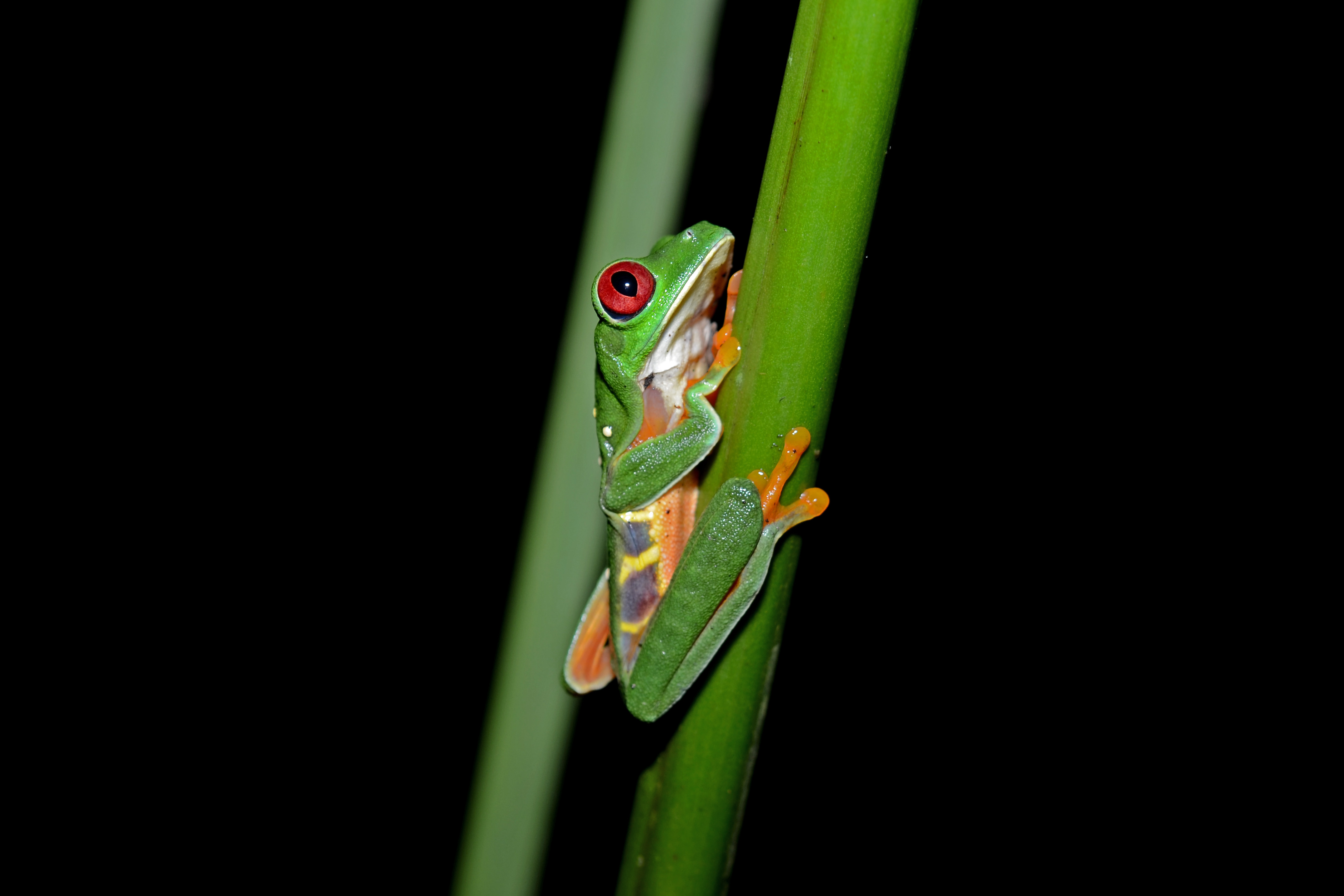 Red-eye tree frog